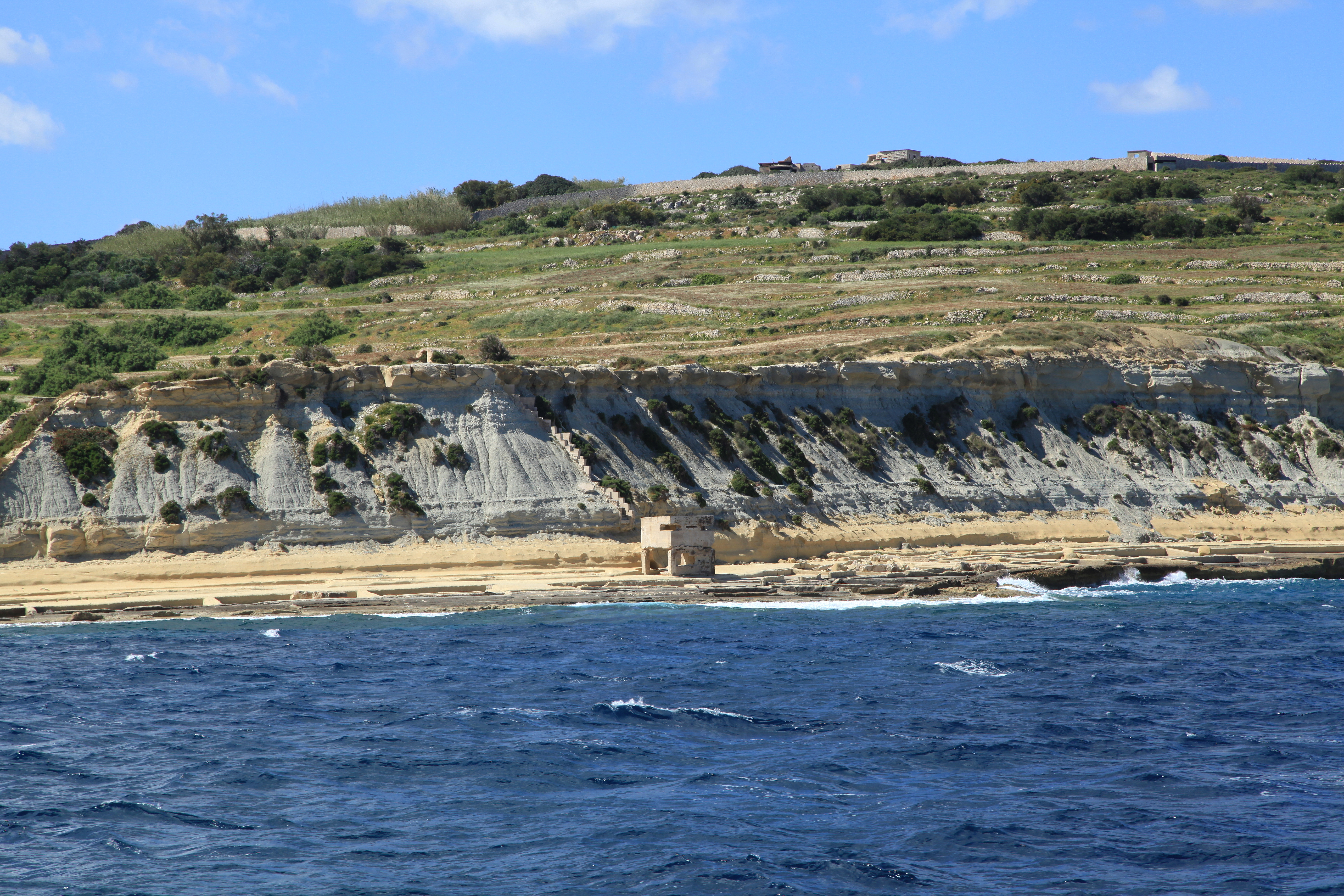 View from the Keppel (IMO 8434415) to Fort Campbell above Il-Blata l-Bajda, Mellieħa, Malta